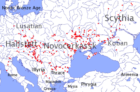 after [1]